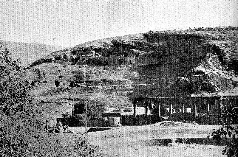 Photograph of Roman ruins at Amman taken in September 1918 Other information Government copyright access unrestricted